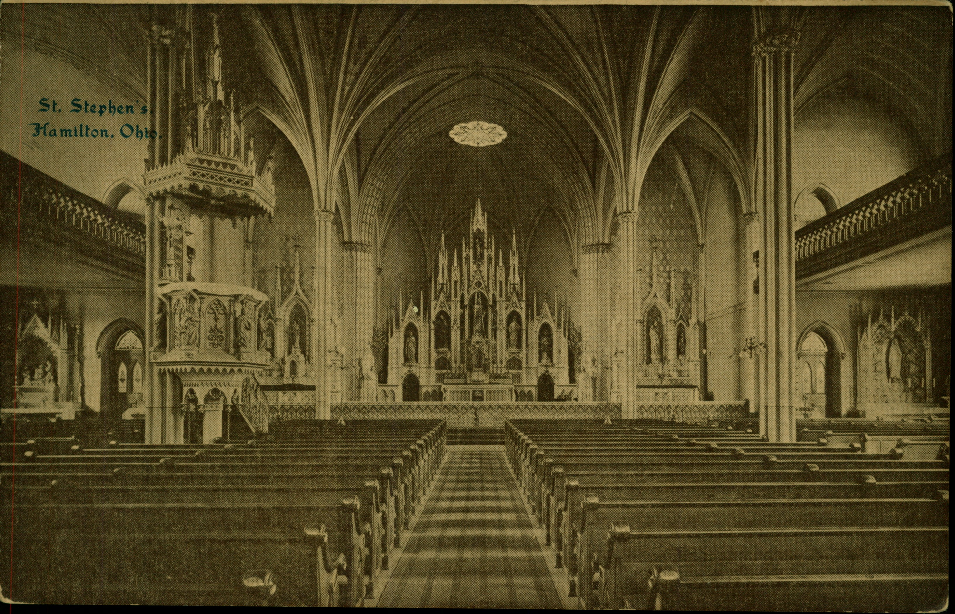 Persistent URL: Subject: Catholic Churches; Religious facilities; Religious architectural elements; Pews; Altars; Ohio--Hamilton; miami digital collections; bowden postcard collection